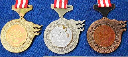 Medalhas da IJSO 2005.